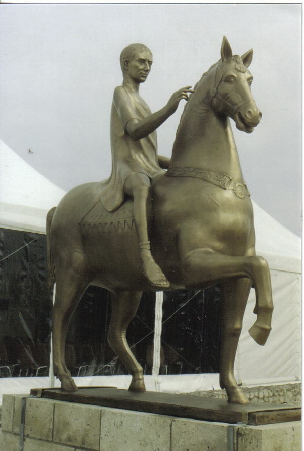 Modern statue of Emperor Augustus in Waldgirmes, Germany